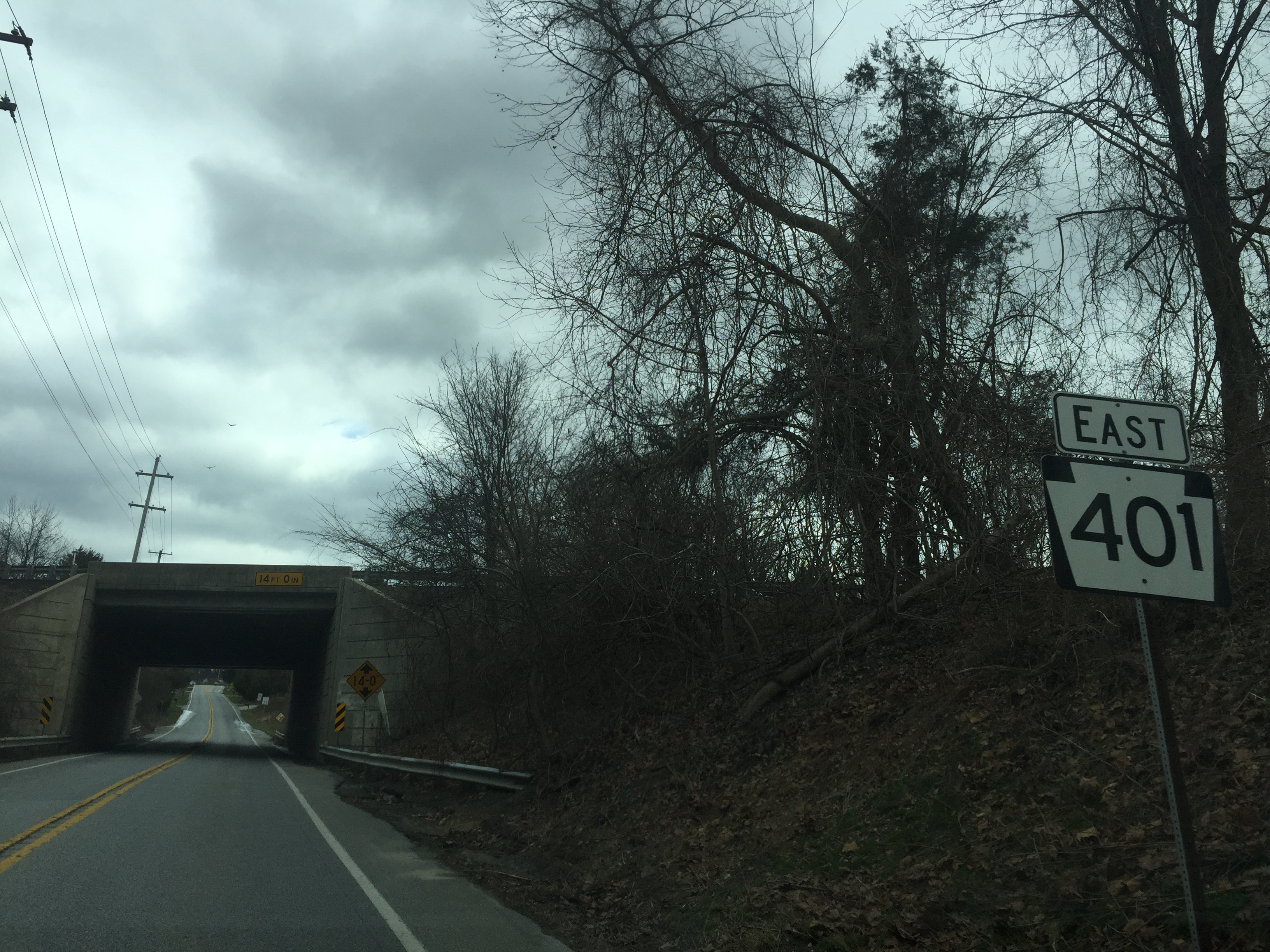 PA 401 at Turnpike